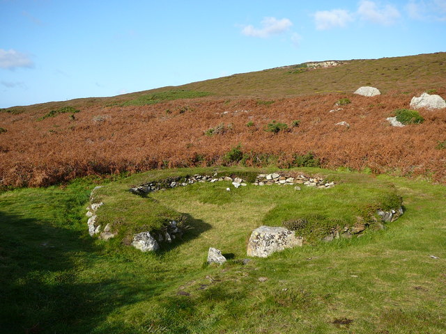 Hut circle, Holyhead Mountain.